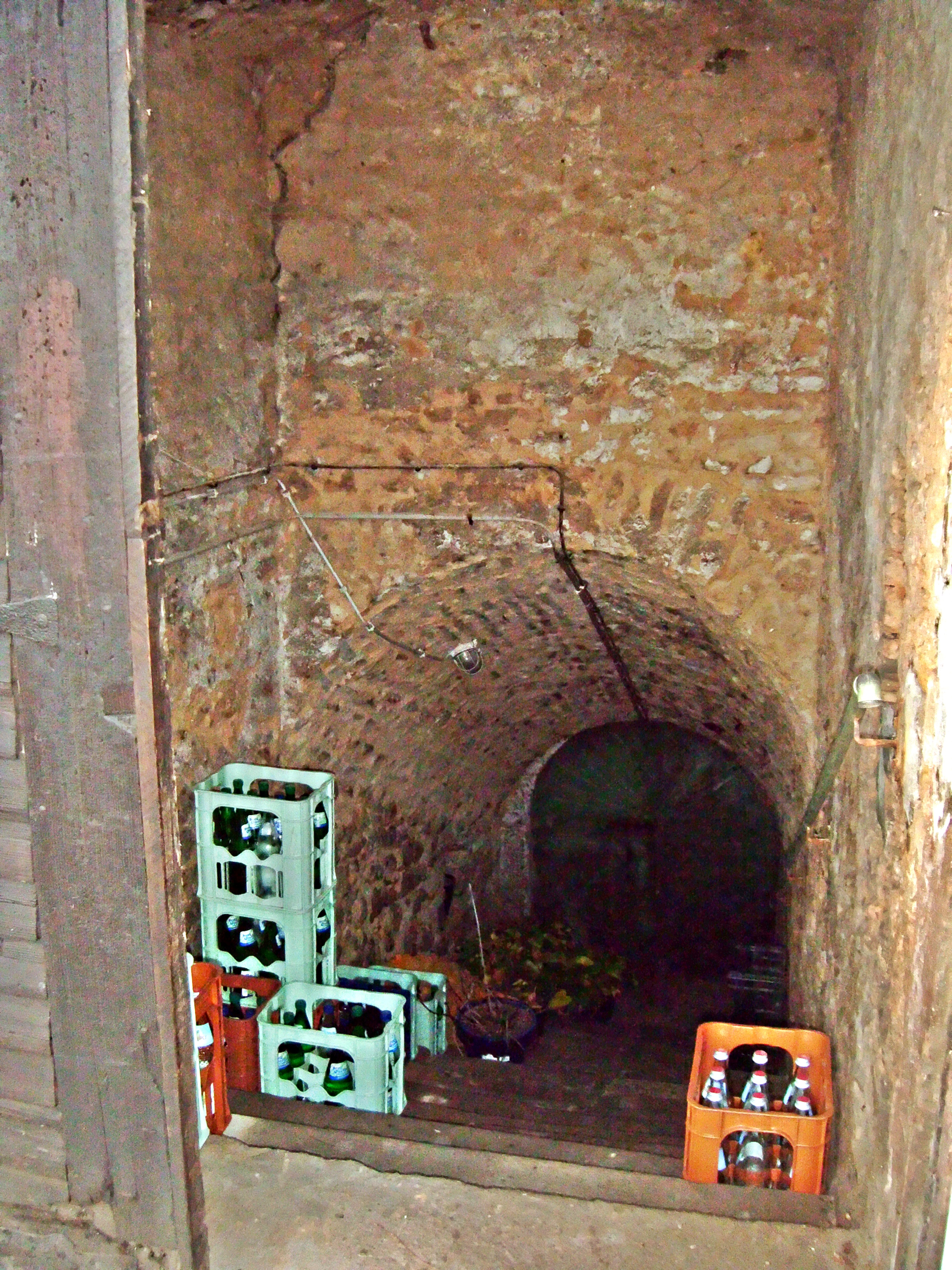 Gundheim, Eingang zum ehem. Burgkeller, Schlossgasse 54